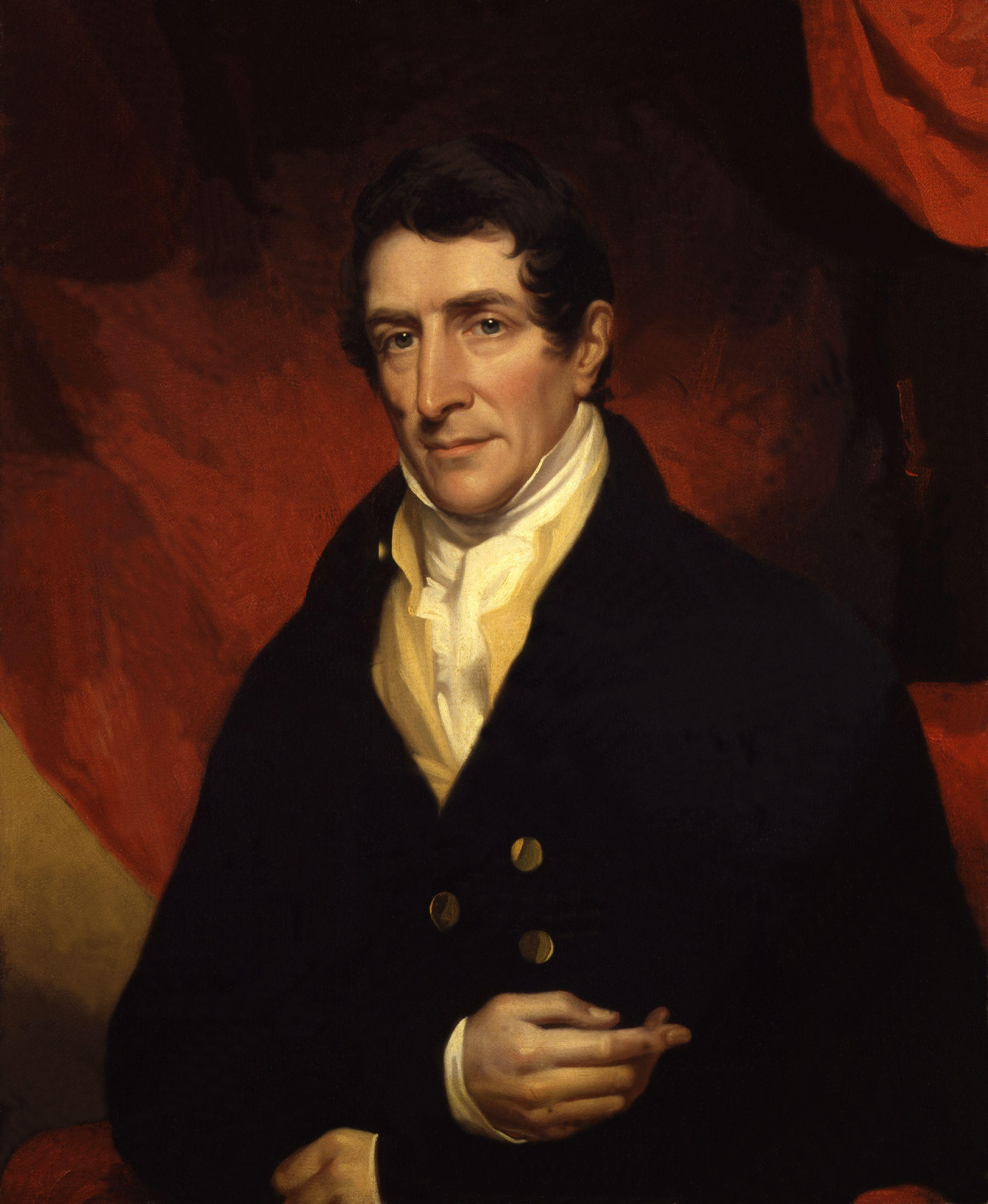 Thomas Denman, 1st Baron Denman, by John James Halls (died 1834), given to the National Portrait Gallery, London in 1873. All images in this batch have been confirmed as author died before 1939 according to the official death date listed by the NPG.